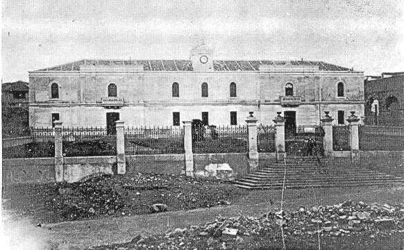 Photo of the I.E.S. Mariano Quintanilla in the early 1900's